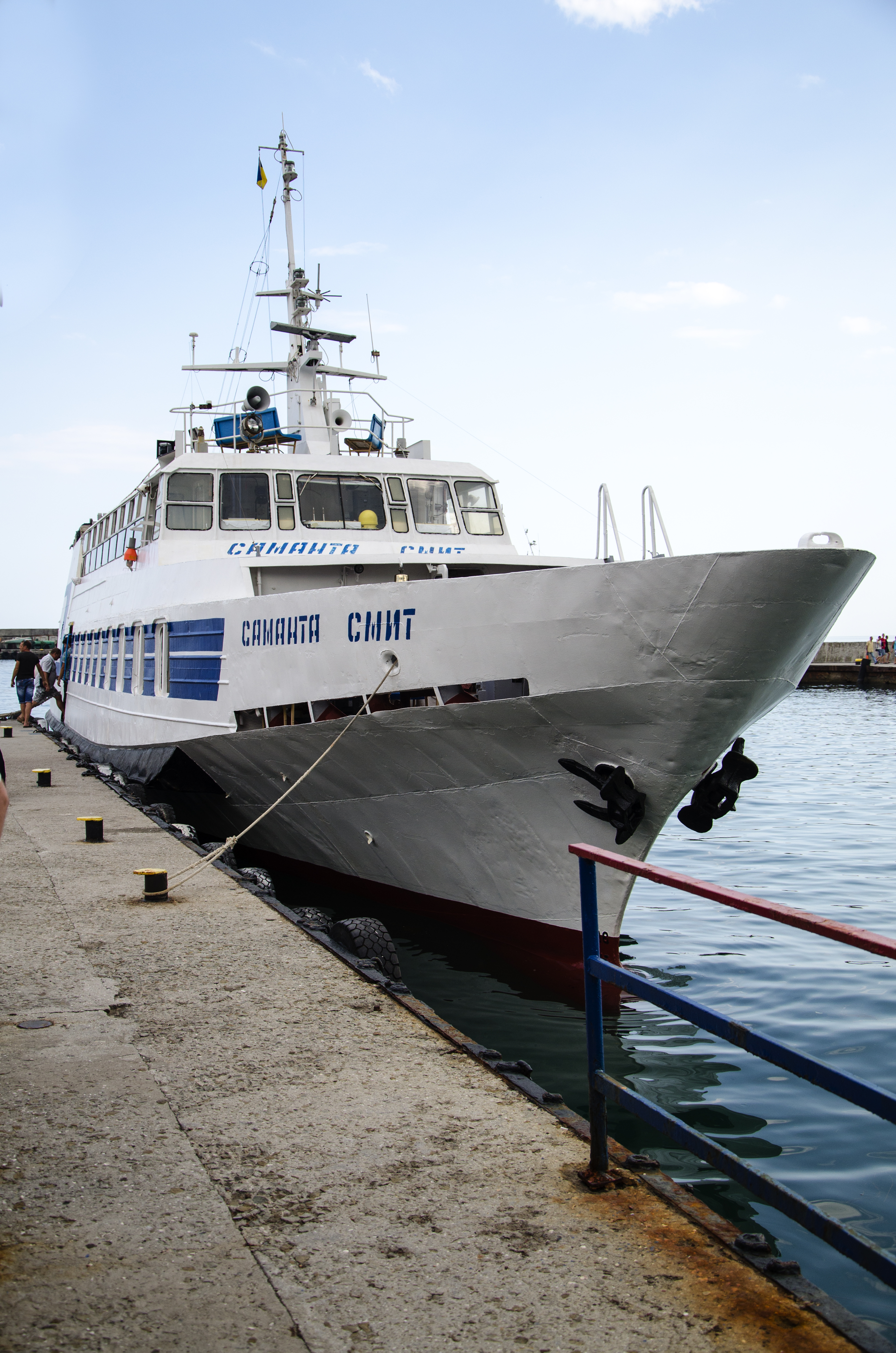 Passenger ship Samanta Smit (named after Samantha Smith) taking passengers before starting to Hurzuf